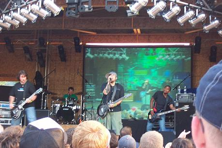 Photo taken by Matt Stephan. Seventh Day Slumber live at the Pro-Life Music Festival 2006, Winona Lake, Indiana category:commons:Christian musical groups